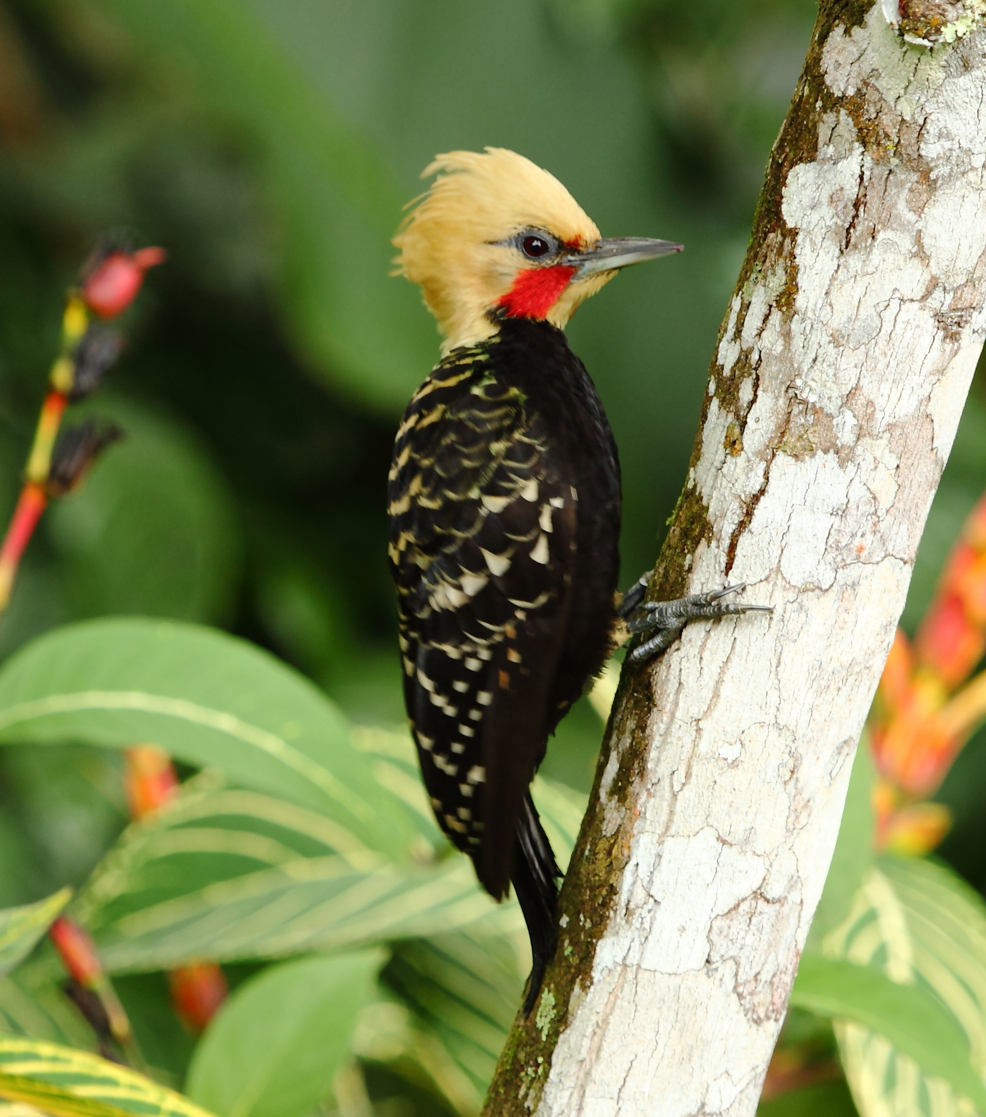 Blond-crested Woodpecker (male) at Bertioga - SP - Brazil